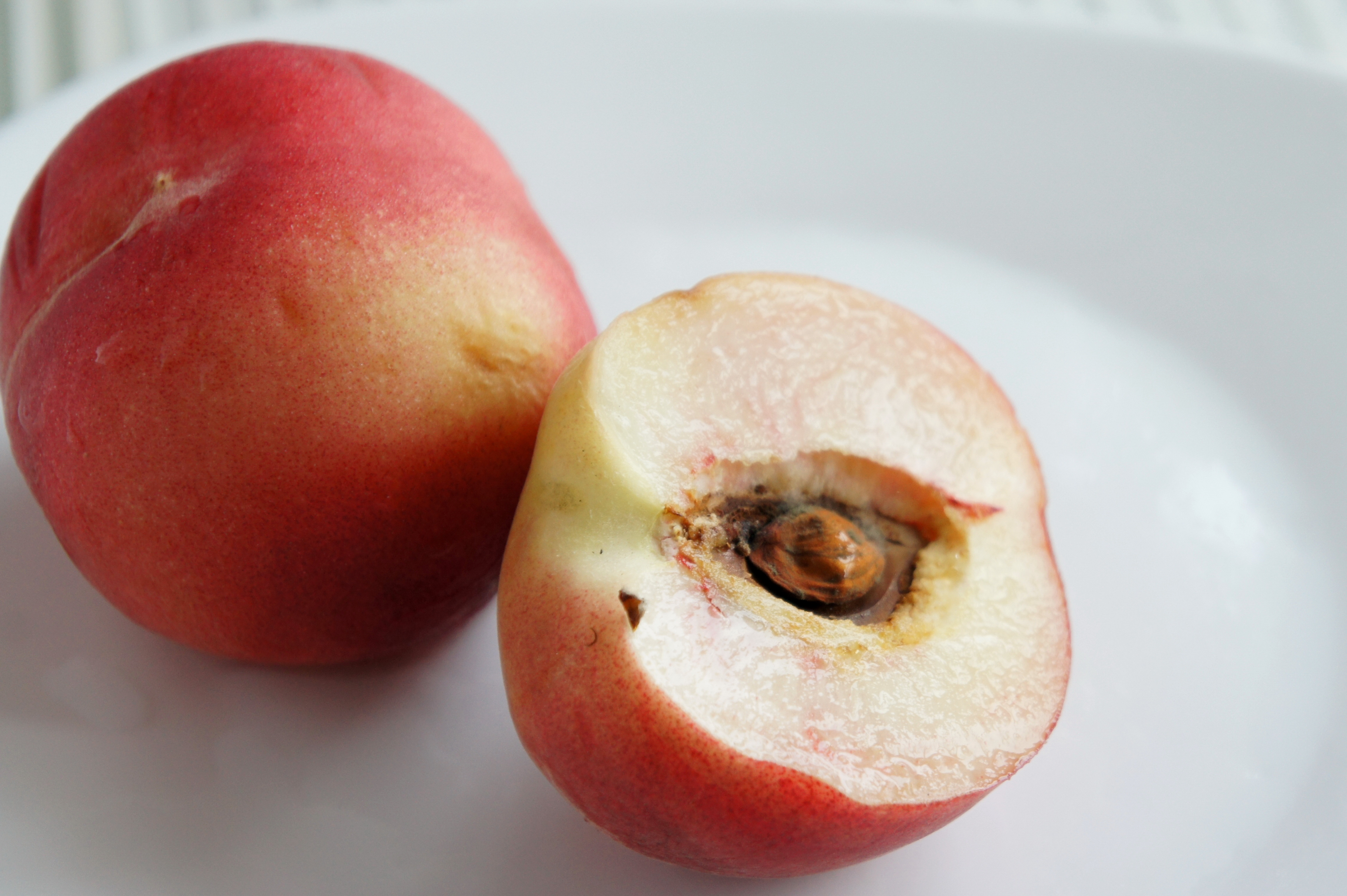 Peach grown on Lala Mountain in Taiwan.